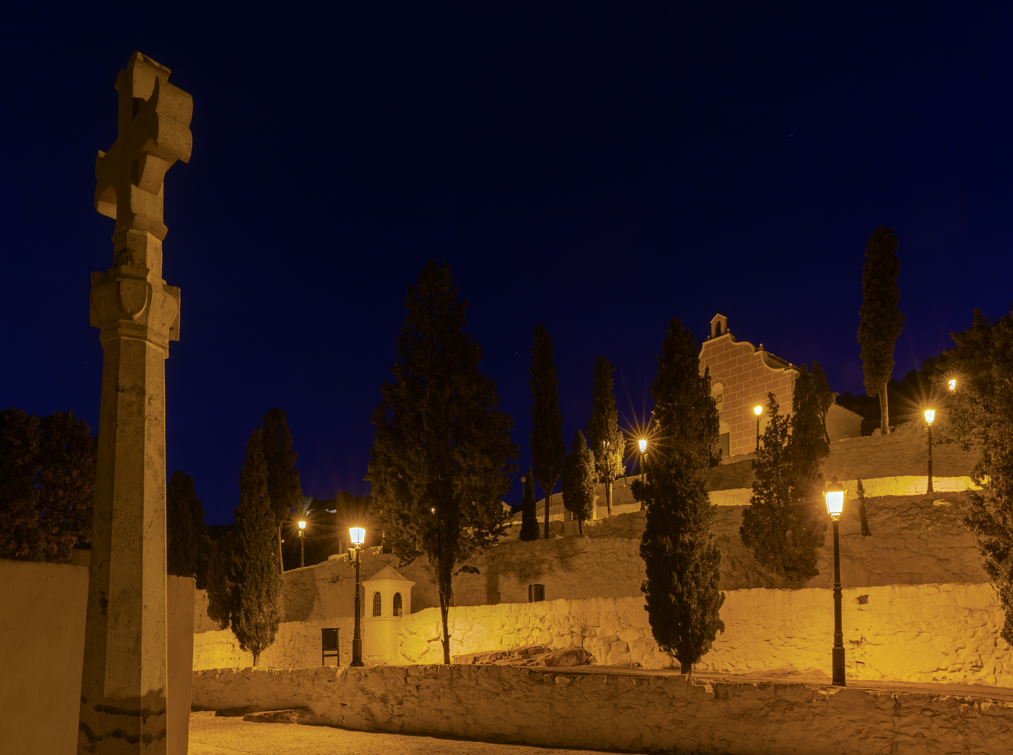 Ermita de la Soledad, Sagunto, España